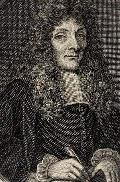 portrait of Estienne de Blégny, writing master, c. 1691.